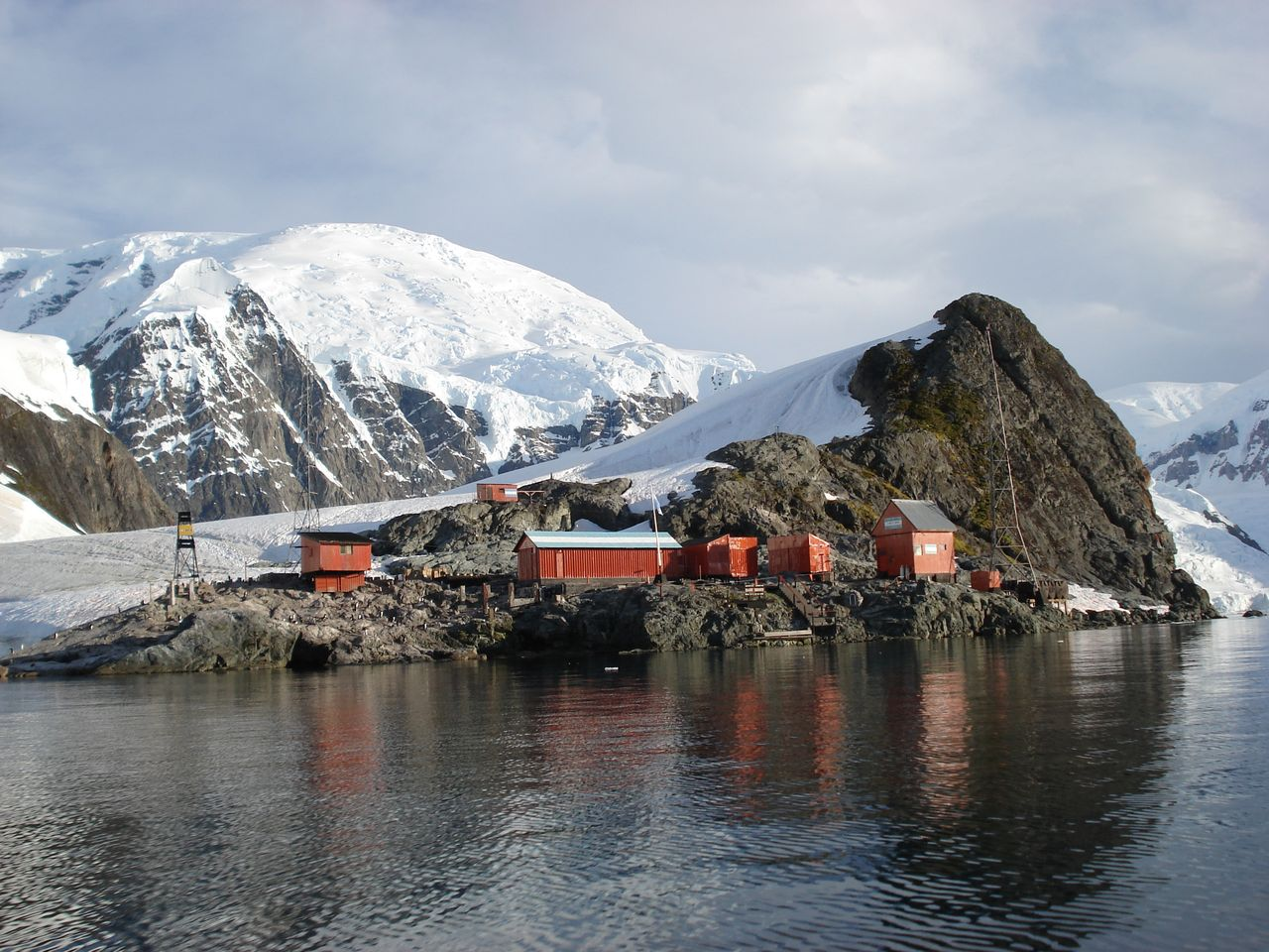 Argentinian Brown Station in Paradise Harbour in Antarctica.